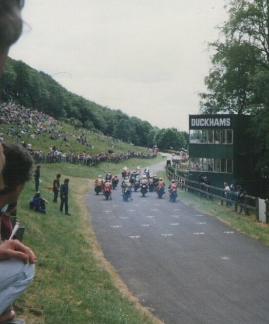 Motorcycle racing - Olivers Mount. Taken about 1986, this is the start and finishing line near the pits which are behind the green commentary box.